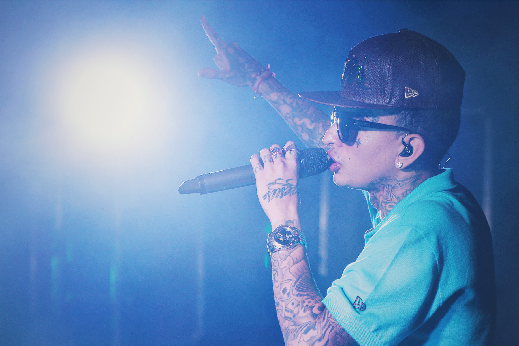 MC Guime Performing Live in Brazil